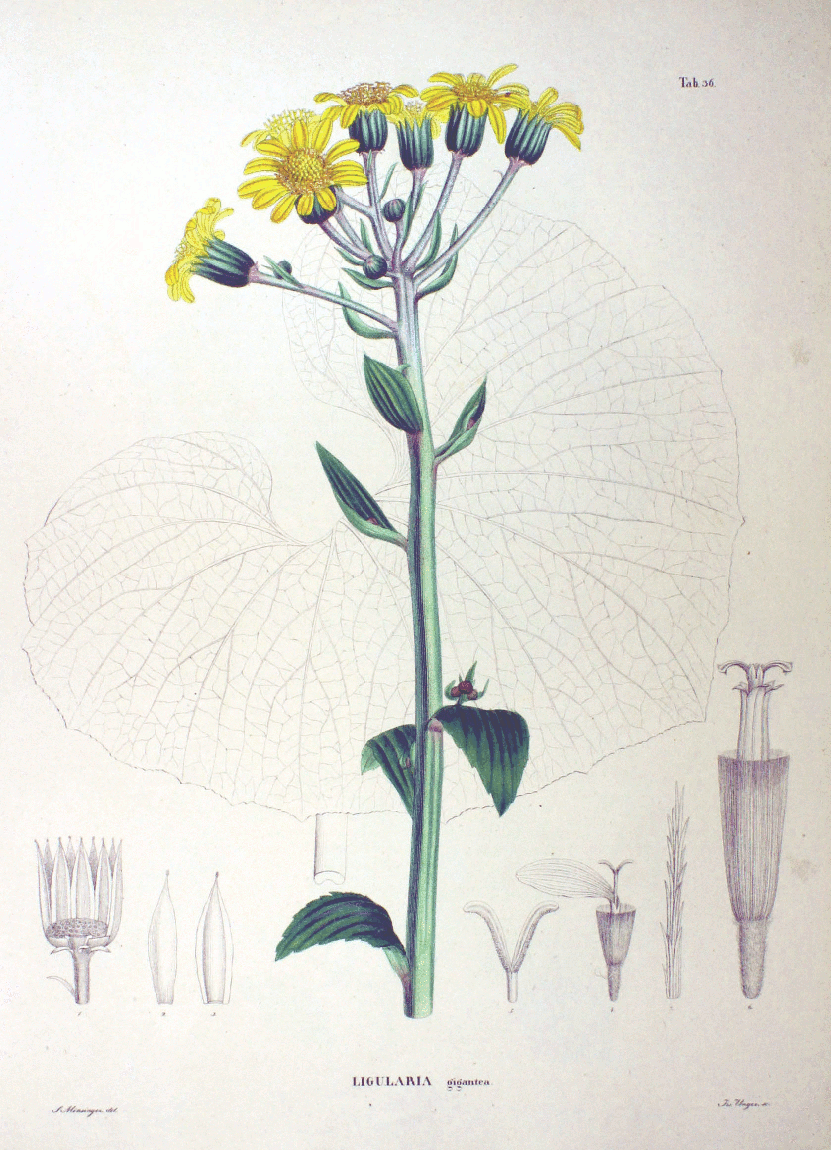 Plate from book